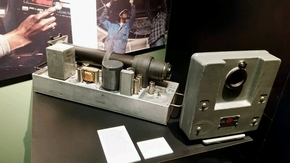 Rapatronic Camera (serial number 1) on display at Atomic Weapons Testing Museum in Las Vegas, NV